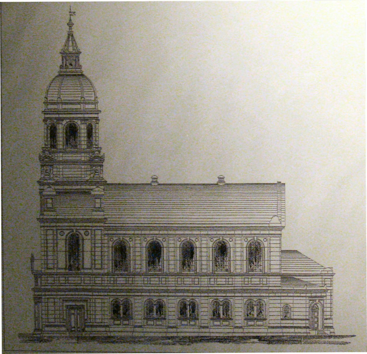 Copy of architectonical plans for the old synagogue in Liberec